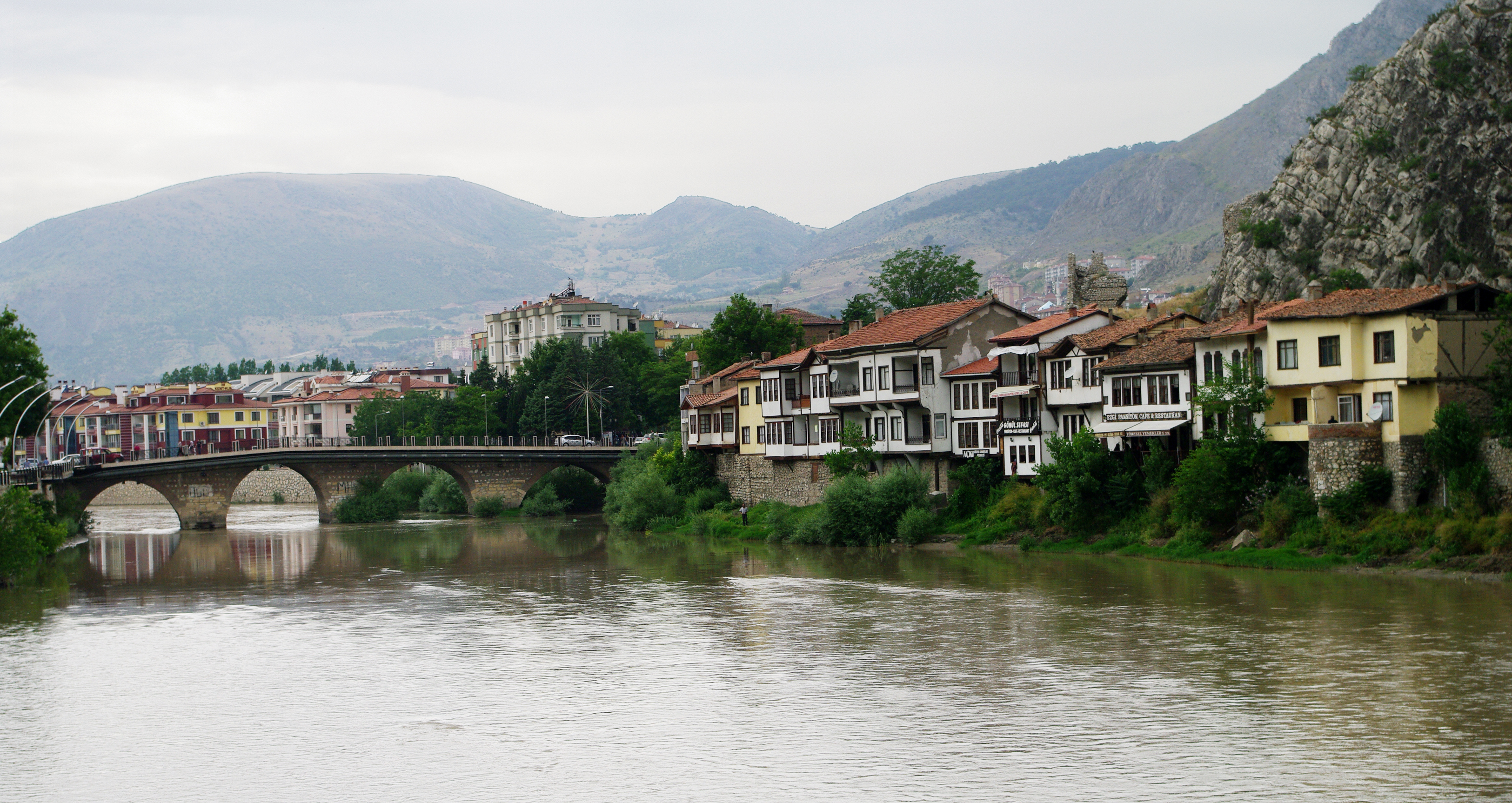 A view of İstasyon Köprüsü (Station Bridge) over Yeşilırmak River in Amasya, Turkey.